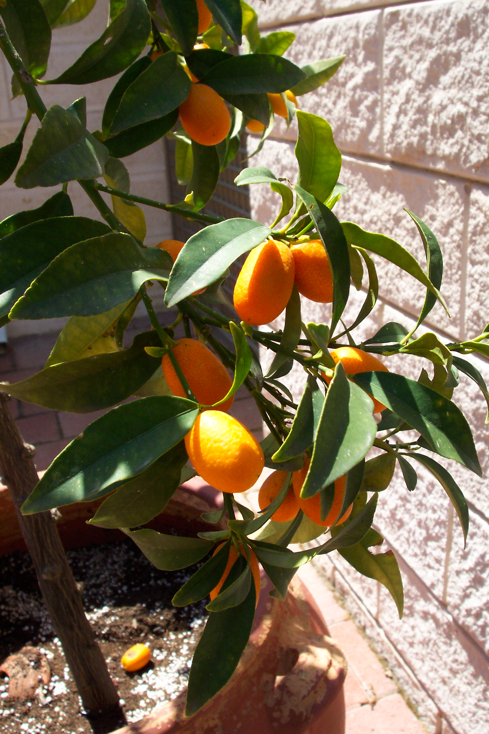 Chinese orange tree in a pot garden